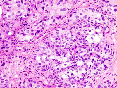 Histopathology of urothelial carcinoma of the urinary bladder. Another version of a file "Bladder_urothelial_carcinoma_histopathology_(1)_at_trigone.jpg".